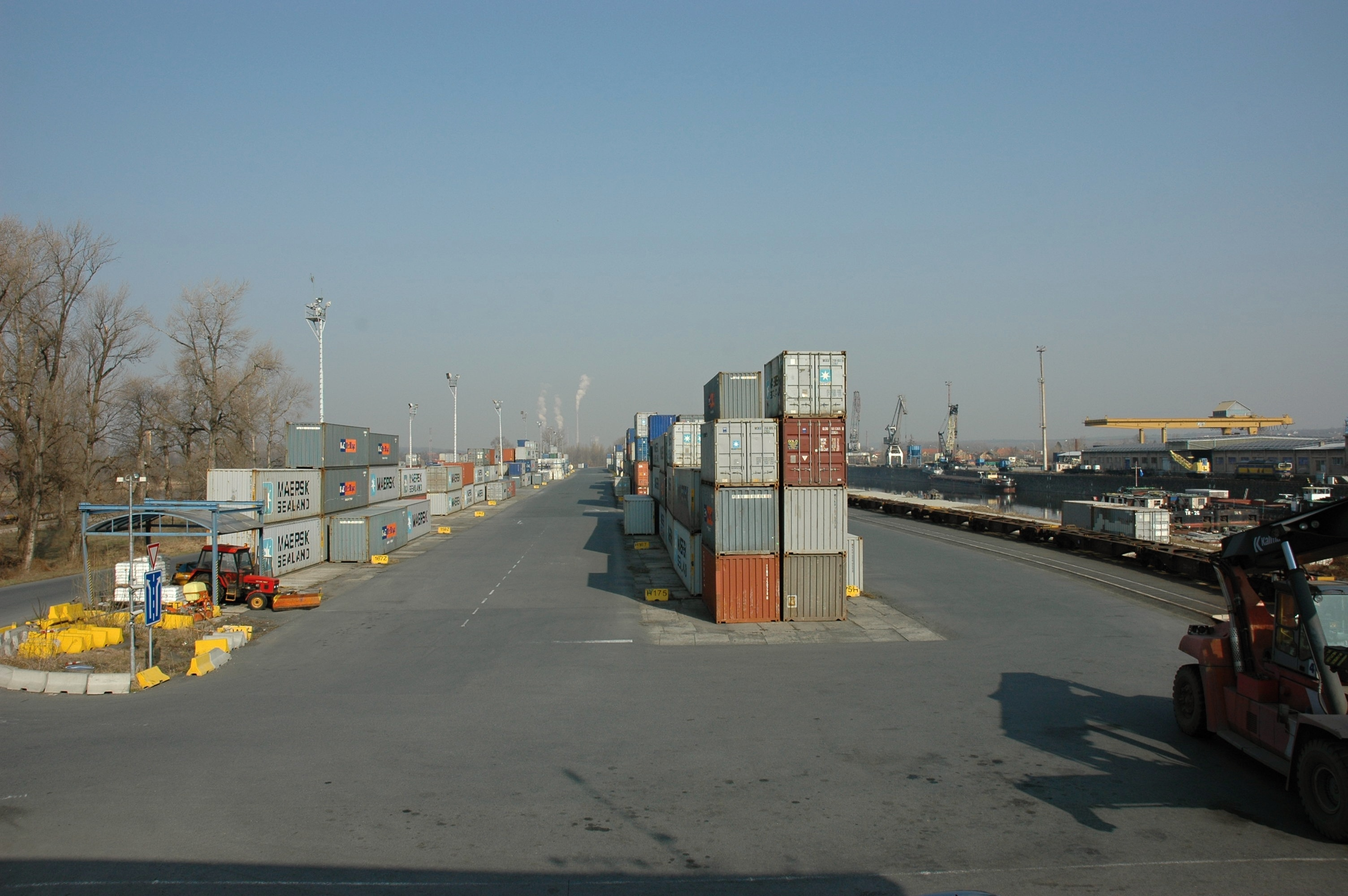 Mělník Intermodal Terminal, port of Mělník, Czech Republic